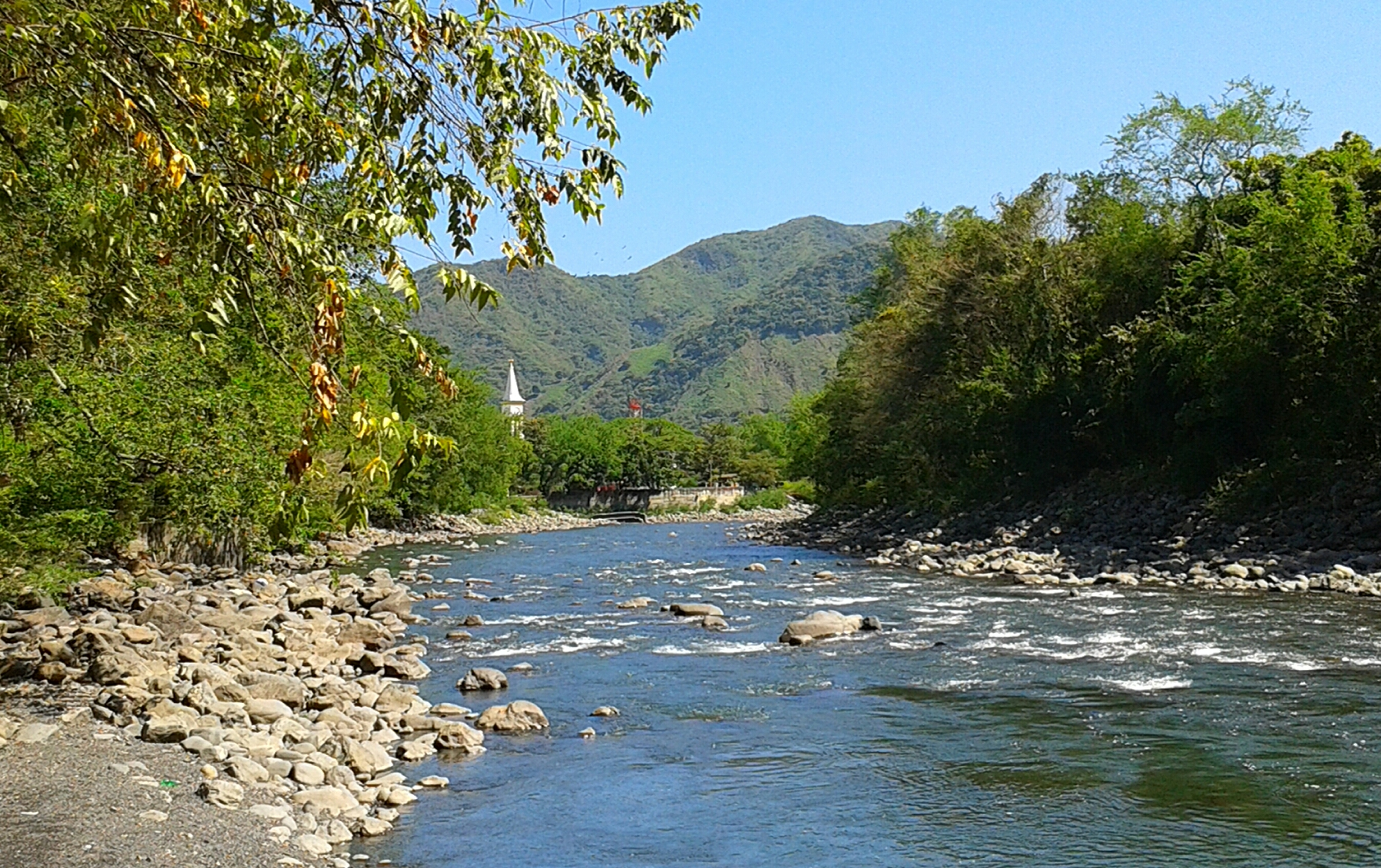 A view of Útica from the Rio Negro (Black River)